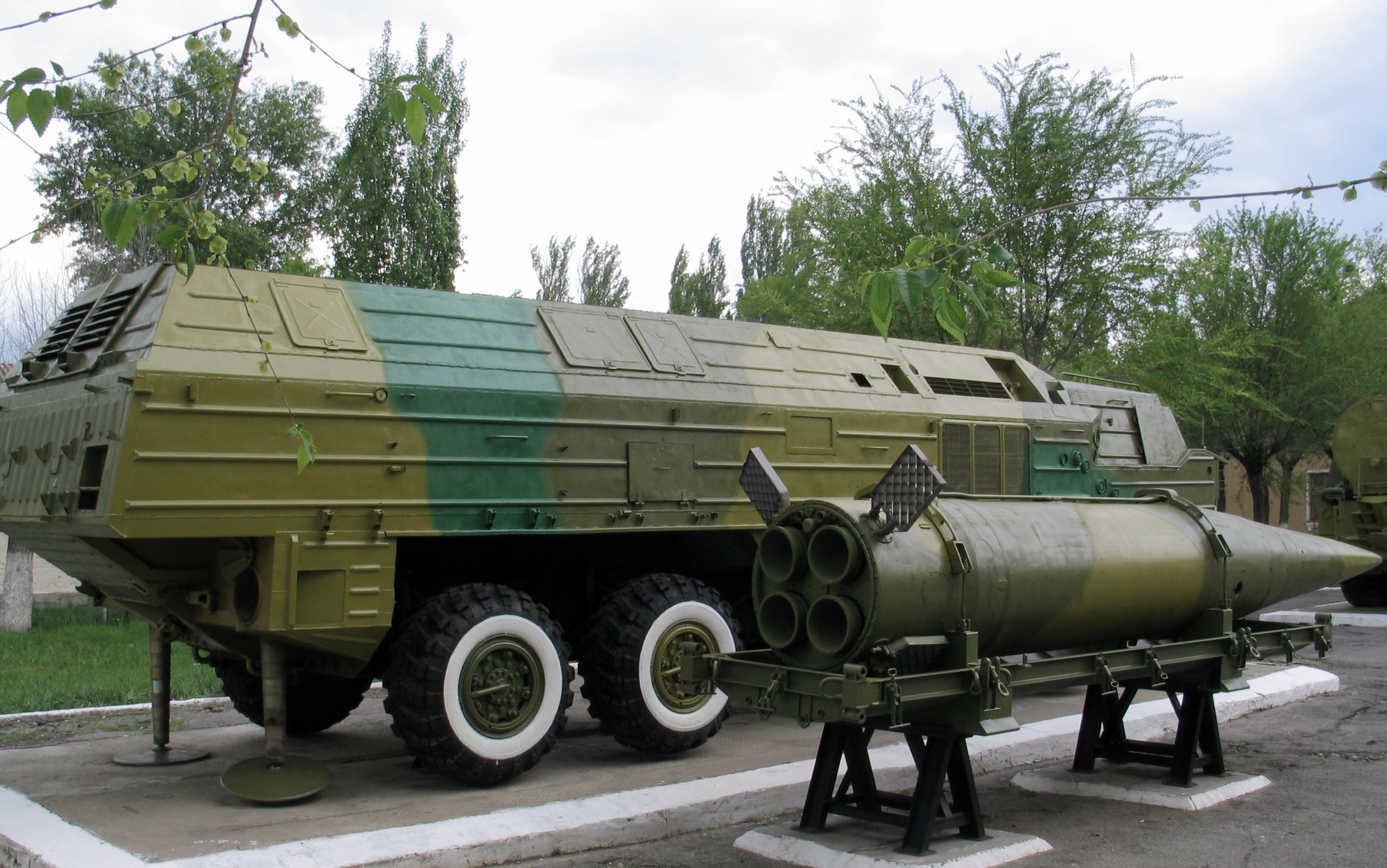 9M714 missile and 9P71 Transporter-Erector-Launcher of 9K714 missile complex «Oka». Kapustin Yar museum in Znamensk, Russia.